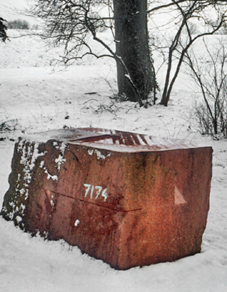 Stein 7174 (1988) by Janez Lenassi at Skulpturengarten Damnatz